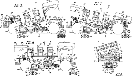 Diagrams showing the range of motion that the 'motion enhanced vehicles' used in Disney attractions can go through.